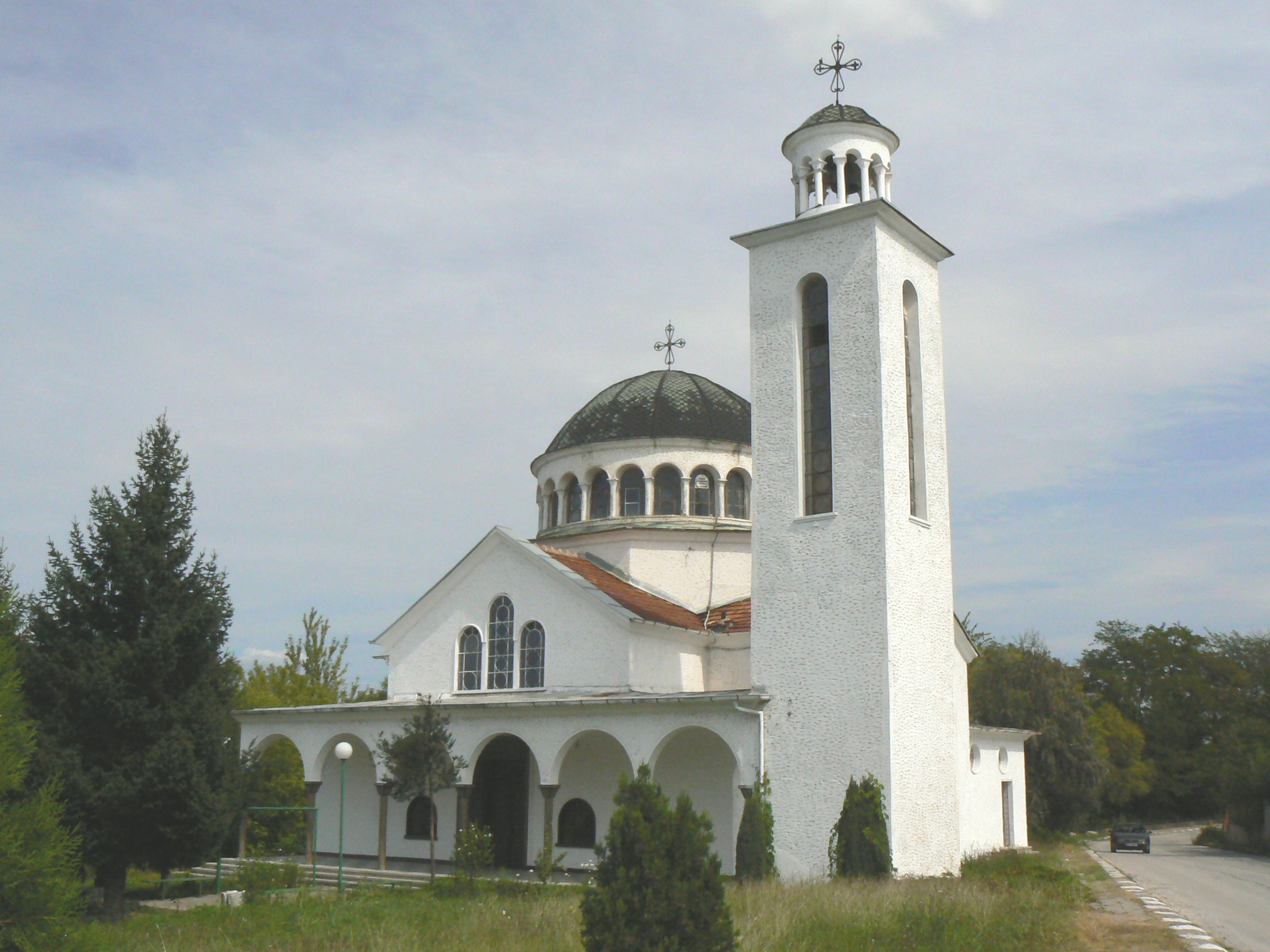 Church "St Ilia the Prophet" in the town of Dolni Dubnik, Bulgaria